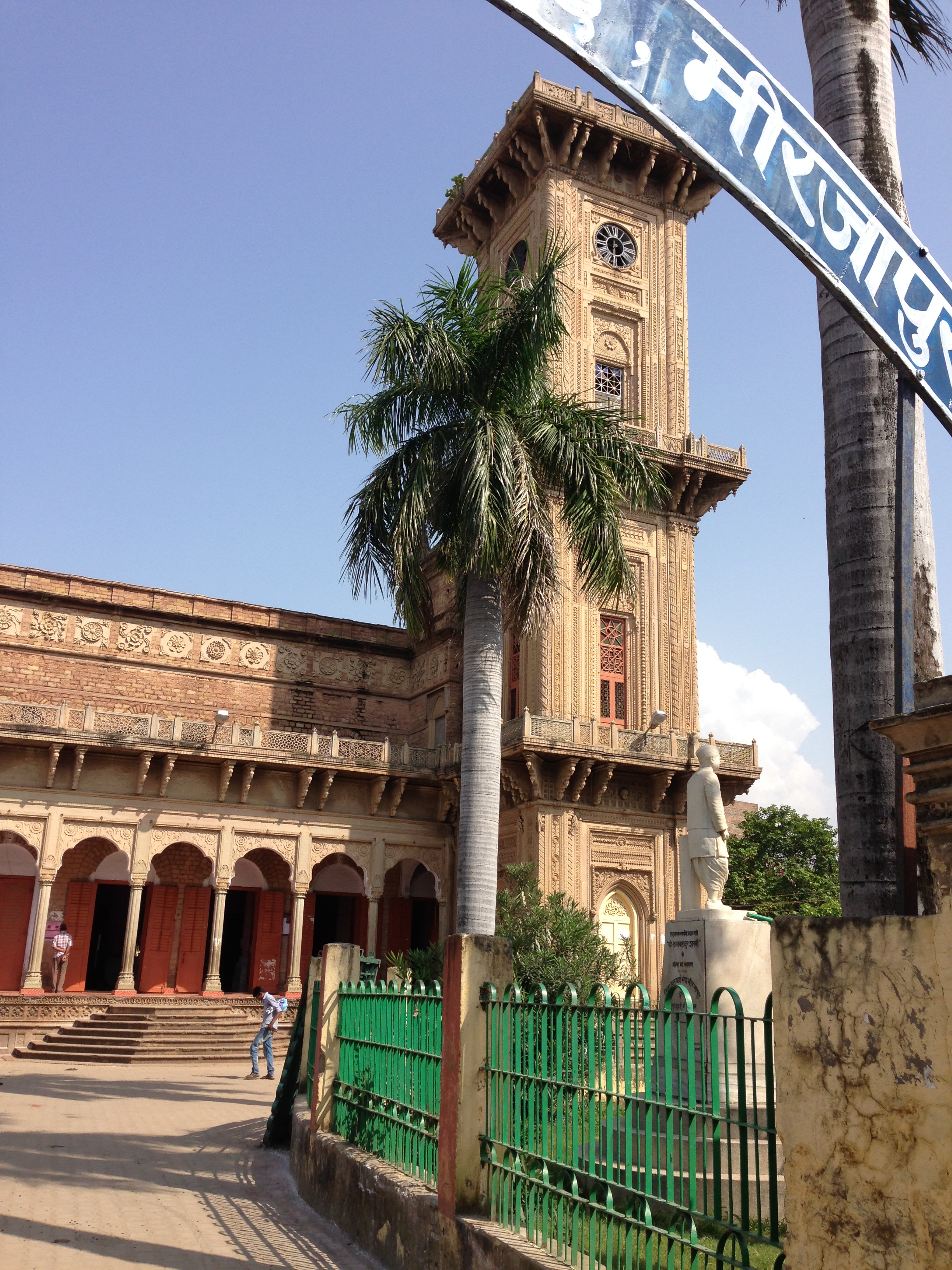 The Ghanta ghar(clock tower)at Mirzapur.